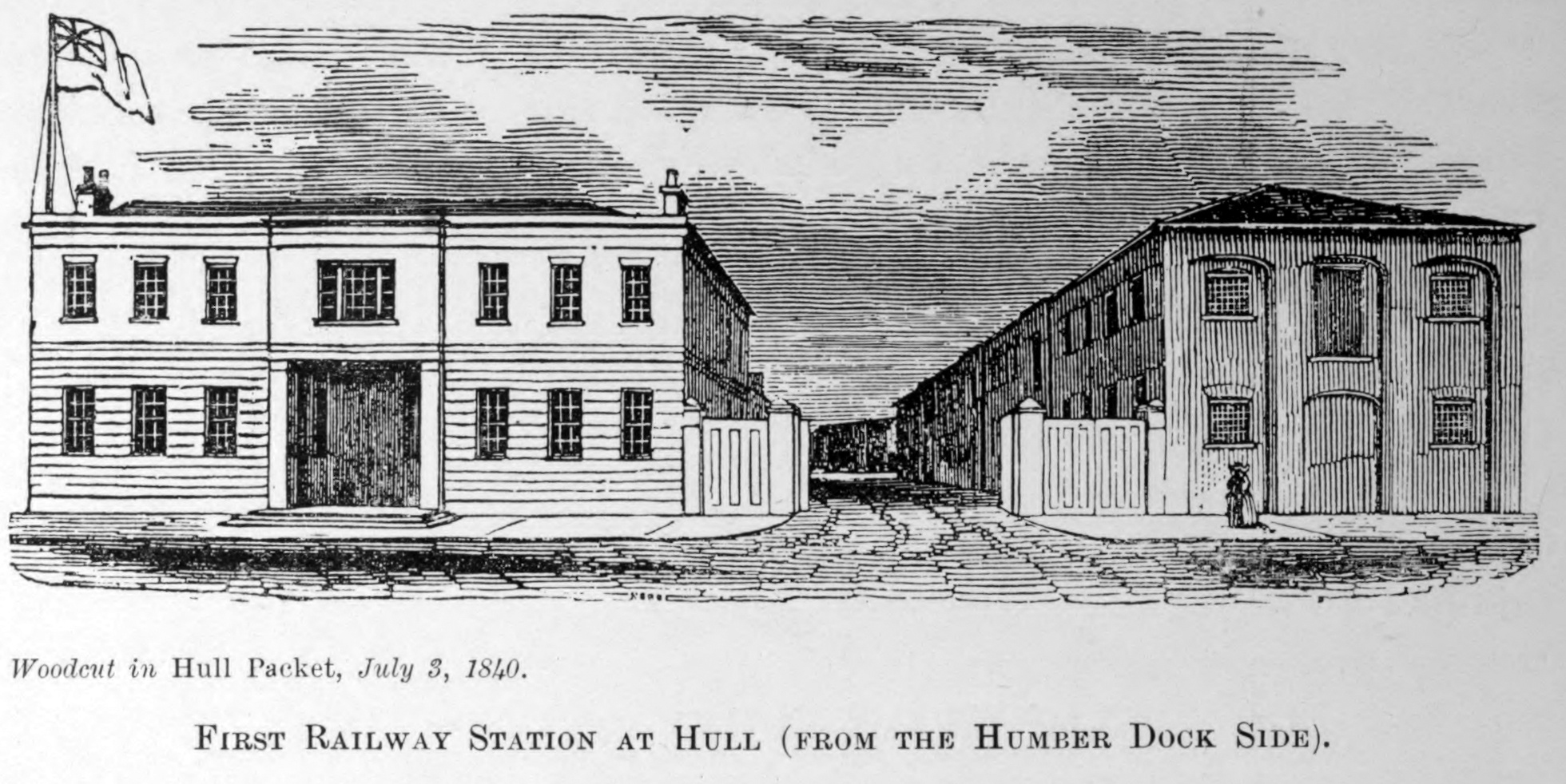 Oringinal terminus of Hull and Selby railway